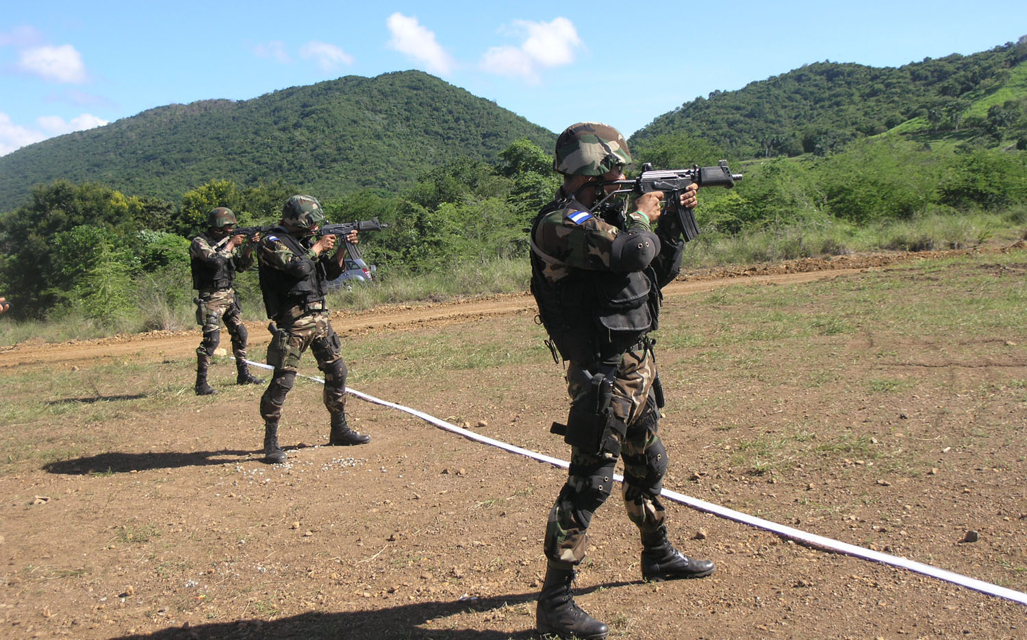 The Nicaragua Special Operations team zeroes in on their targets June 17 outside the Dominican Army's 1st Infantry Brigade along during rolling hills of the Dominican capital of Santo Domingo. Along with the rifle and pistol qualification, teams participating in the Fuerzas Comando competition were also evaluated on sniper marksmanship and critical shooting skills using a 9 mm pistol.